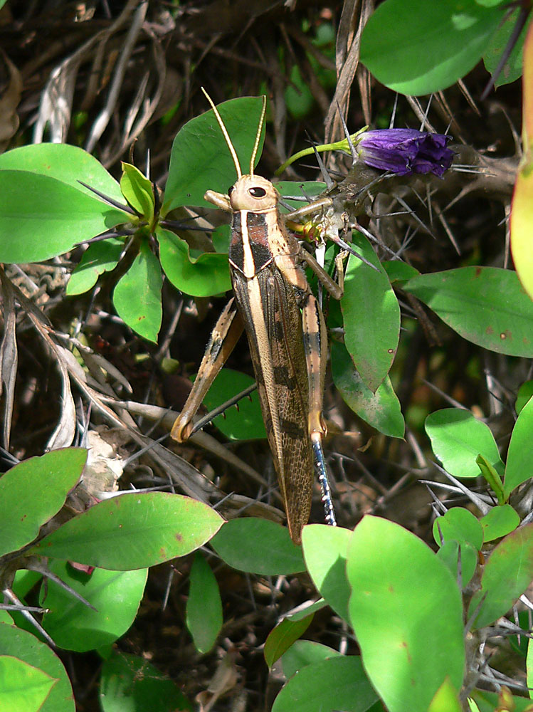 Garden locust, Acanthacris ruficornis ruficornis, photographed in Nanyuki, Kenya.